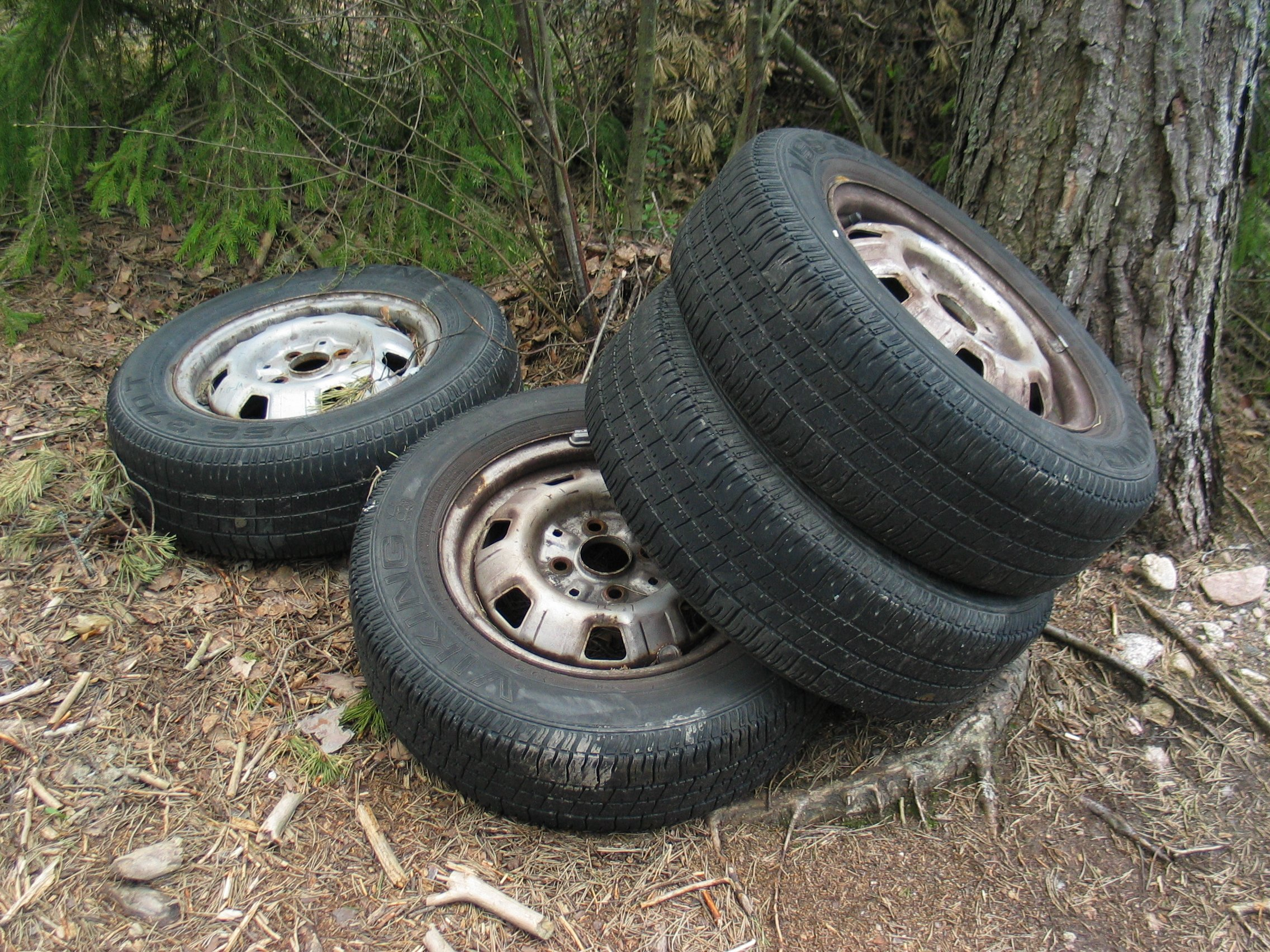 Car tires illegally abandoned in a forest.